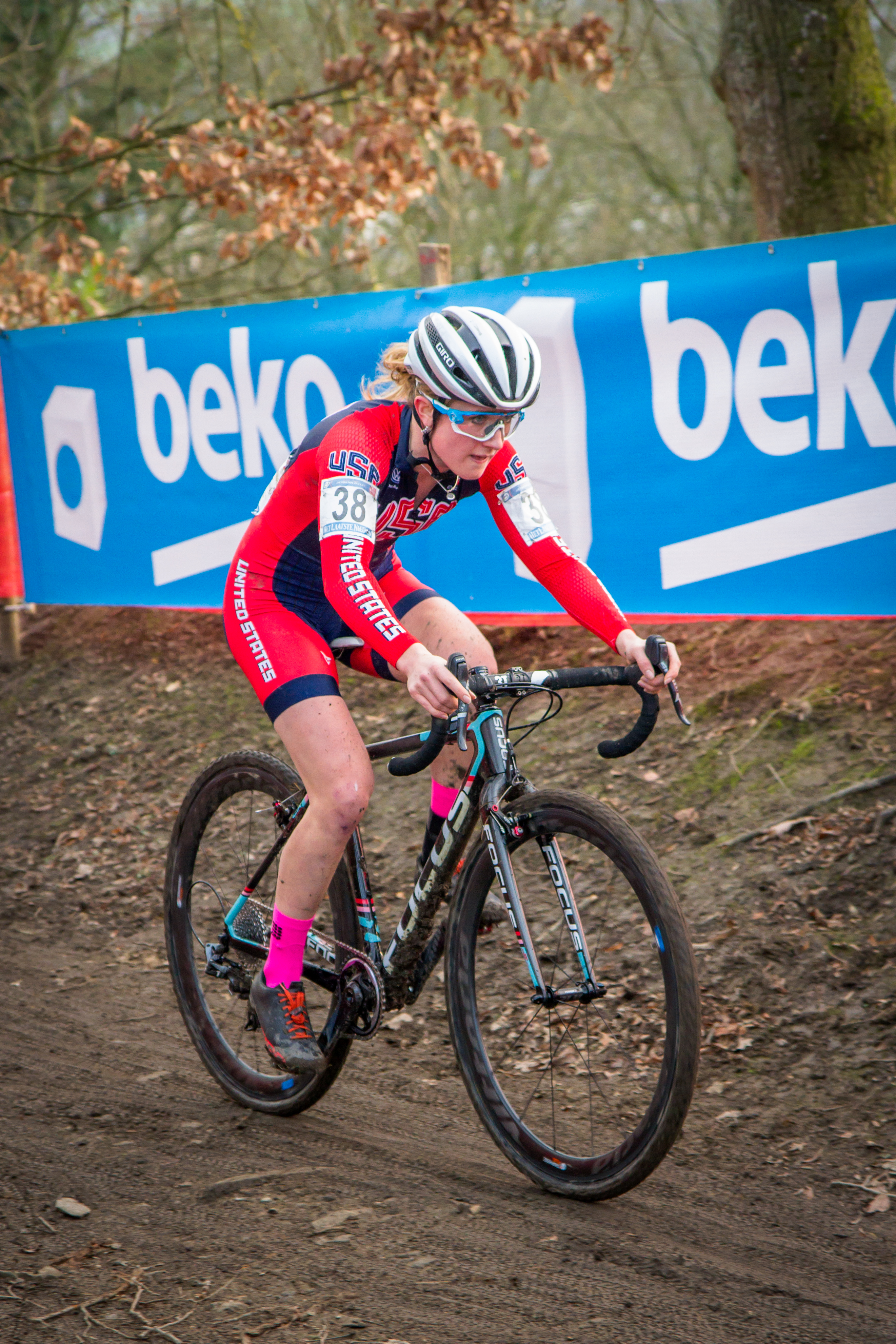 Ellen Noble of USA World Team. UCI Cyclocross World Cup, Namur, 2015.